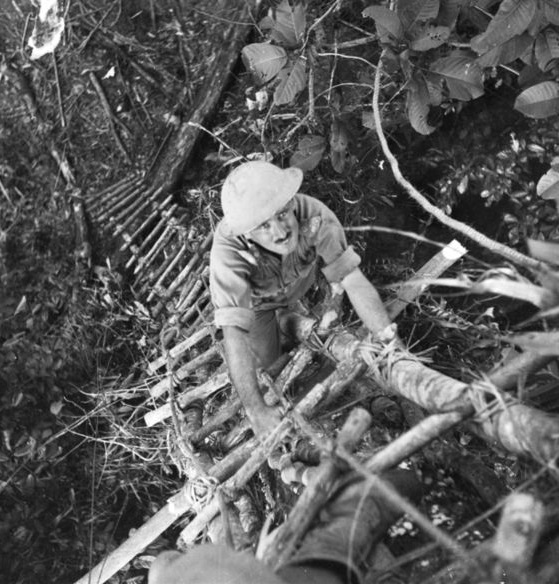 1942-12-16. PAPUA. GONA. FORWARD OBSERVATION OFFICER WITH 55/53RD BATTALION, LIEUTENANT W. M. FINLEY OF NSW, CLIMBS A TREE TO DIRECT FIRE FROM HIS 25 POUNDER GUN. WHEN THE 25 POUNDERS FIRST ARRIVED BY PLANE AND OPENED FIRE ON THE JAPANESE, TROOPS STOOD UP AND CHEERED AT THE SOUND OF THE FIRST SHELL WHICH SCREAMED OVERHEAD. (NEGATIVE BY G. SILK).